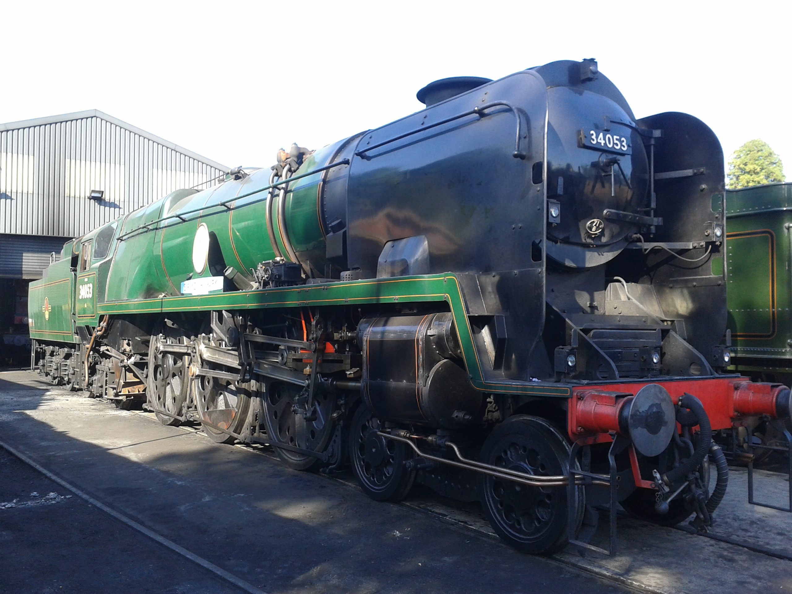 34053 Sir Keith Park at Bridgnorth on the Severn Valley Railway